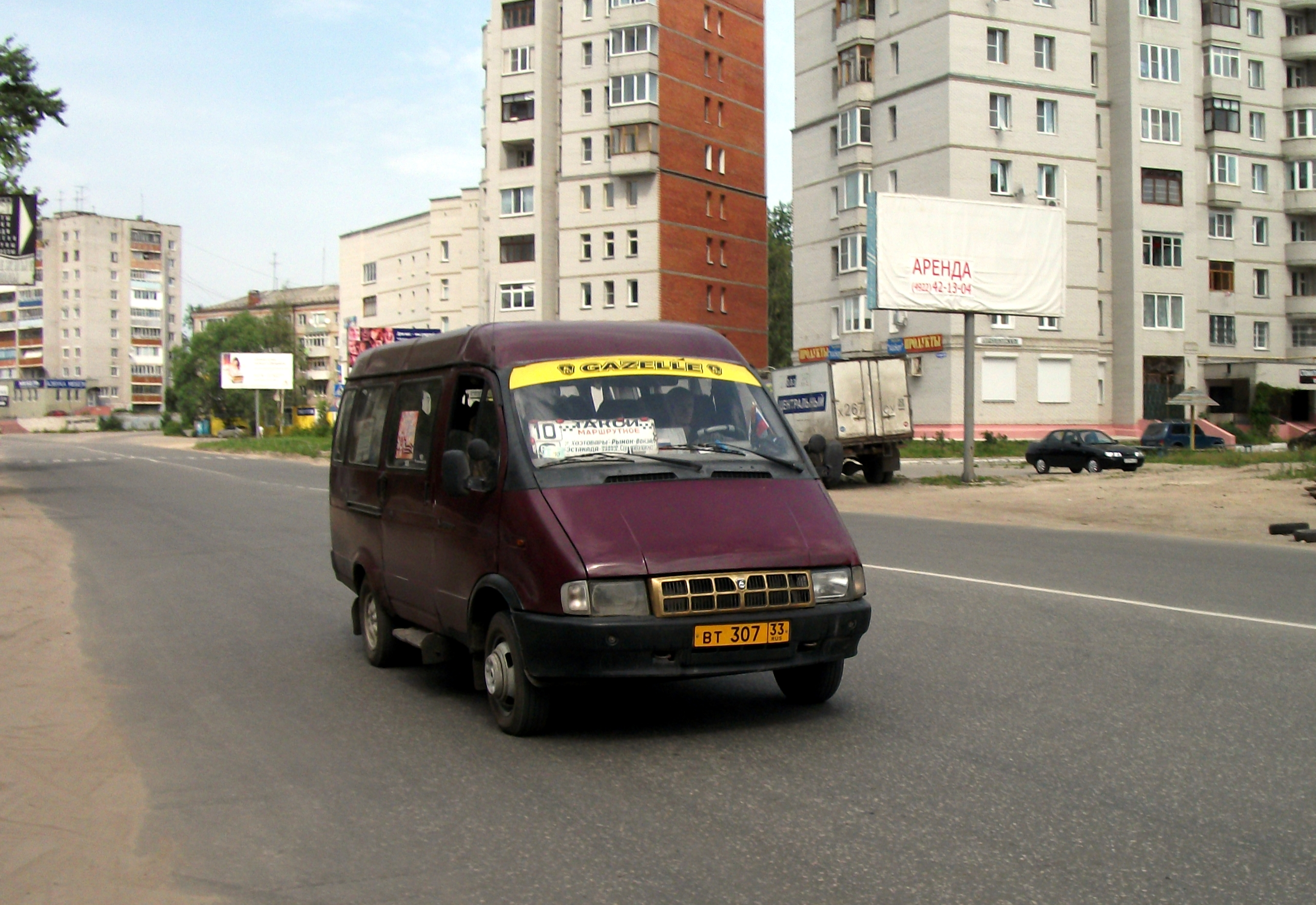 GAZelle bus (reg. BT 307 33) in Gus-Khrustalny, Vladimir Oblast, Russia.